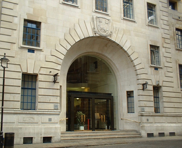 London School of Economics taken by C Ford March 04.